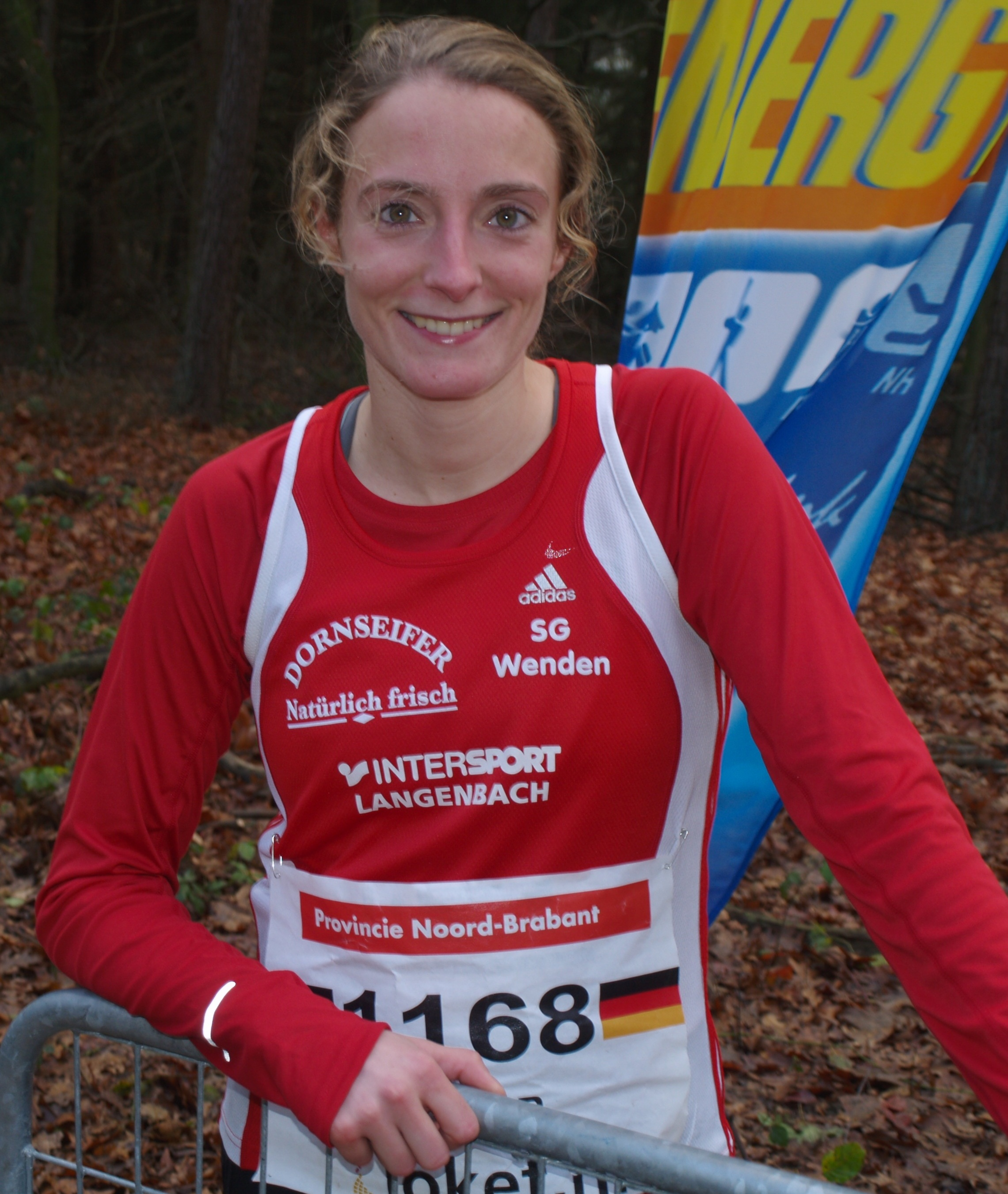 Warandeloop Tilburg 2011 (EM-Qualifikation)